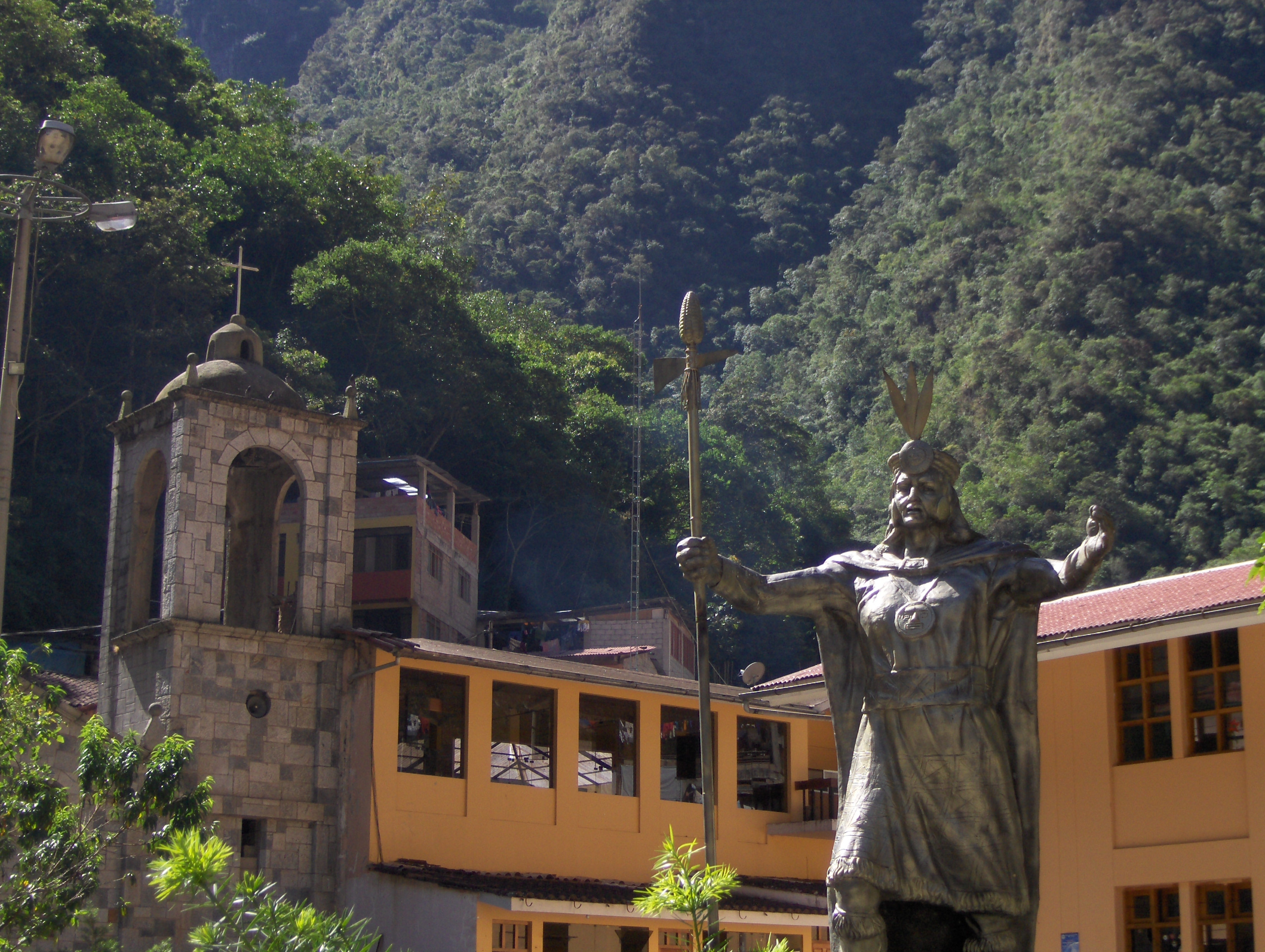 Pachacútec statue and cathedral in the main square of Aguas Calientes.The picture is from my vacation to Peru.